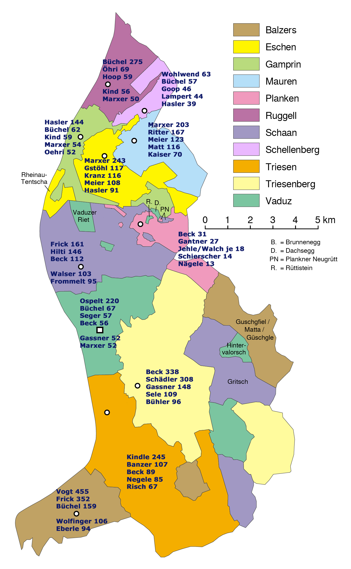 Map of the Top 5 Surname in the Principality of Liechtenstein